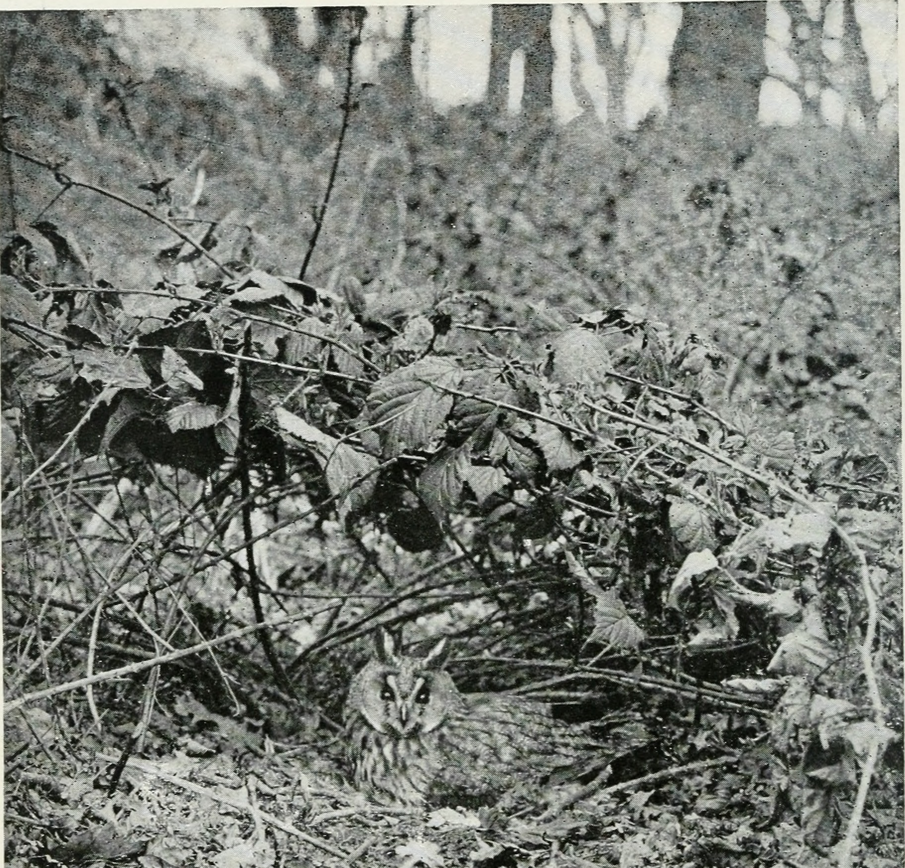 Title: The birds of the British Isles and their eggs Year: 1919 (1910s) Authors: Coward, T. A. (Thomas Alfred), 1867-1933 Subjects: Birds -- Great Britain Birds -- Eggs Great Britain Publisher: London New York : F. Warne Text Appearing Before Image: I PL 120. Long-eared Owl.Short-eared Owl. U 294. Text Appearing After Image: ^mf^-^:^ ;.-^;#fc?^f1^^^^--^is^. I yv. 121. ^vS Long-eared Owl nesting on ground. Cr29S. SHORT-EARED OWL. 295 have seen it, a mere speck in the sky, gradually float down,UP moved by the angry mobbing of a Rook and Daw, andwhen near the earth suddenly shoot with half-closed wings andskim out of sight just above the hedgerows. It is in theseskimming descents, no doubt, that it is captured in the flightnets on the coast. The food—small mammals, birds and beetles—does notdifter from that of other owls, but it is evidently partial tovoles, for during the over-abundance of these destructiverodents, known as vole-plagues, there is always a greatincrease of Short-eared Owls, natures most effective methodof reducing their numbers. On migration it feeds upon otheravian travellers, capturing them as they fly on misty nights inthe glare from the lighthouses. The nest, always on the ground, may have a little lining, butthis is usually the trodden vegetation ; it is amongst the heatheron the mo